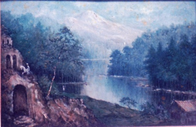 Tibethome.jpg